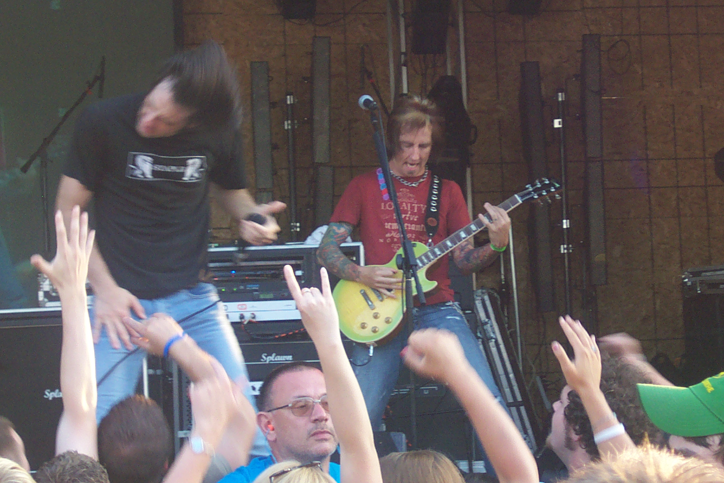 Photo taken by Matt Stephan at the Pro-Life Music Festival, Winona Lake, Indiana 2006